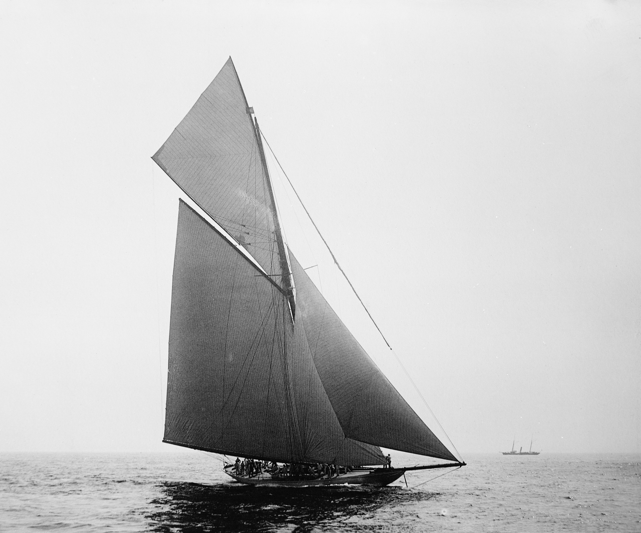 Racing yacht 'Valkyrie III'.Removed the following words from the image: "51 Valkyrie III copyright 1895 by J. S. Johnston, N.Y."